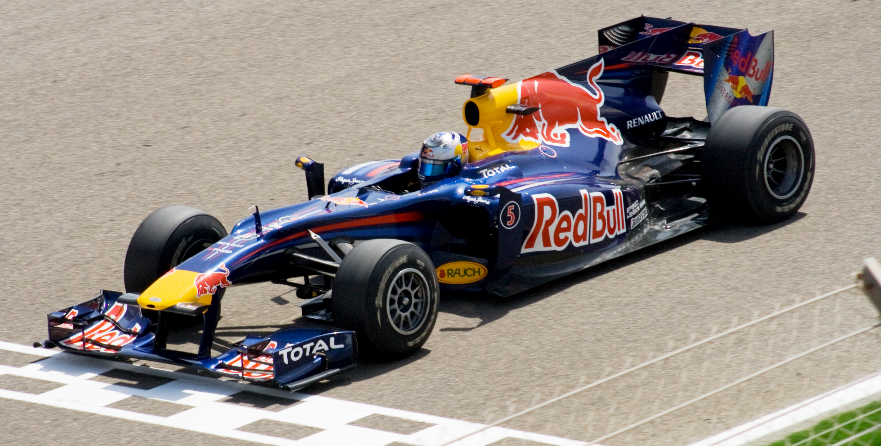 Again, if you know who is driving, please post a comment.